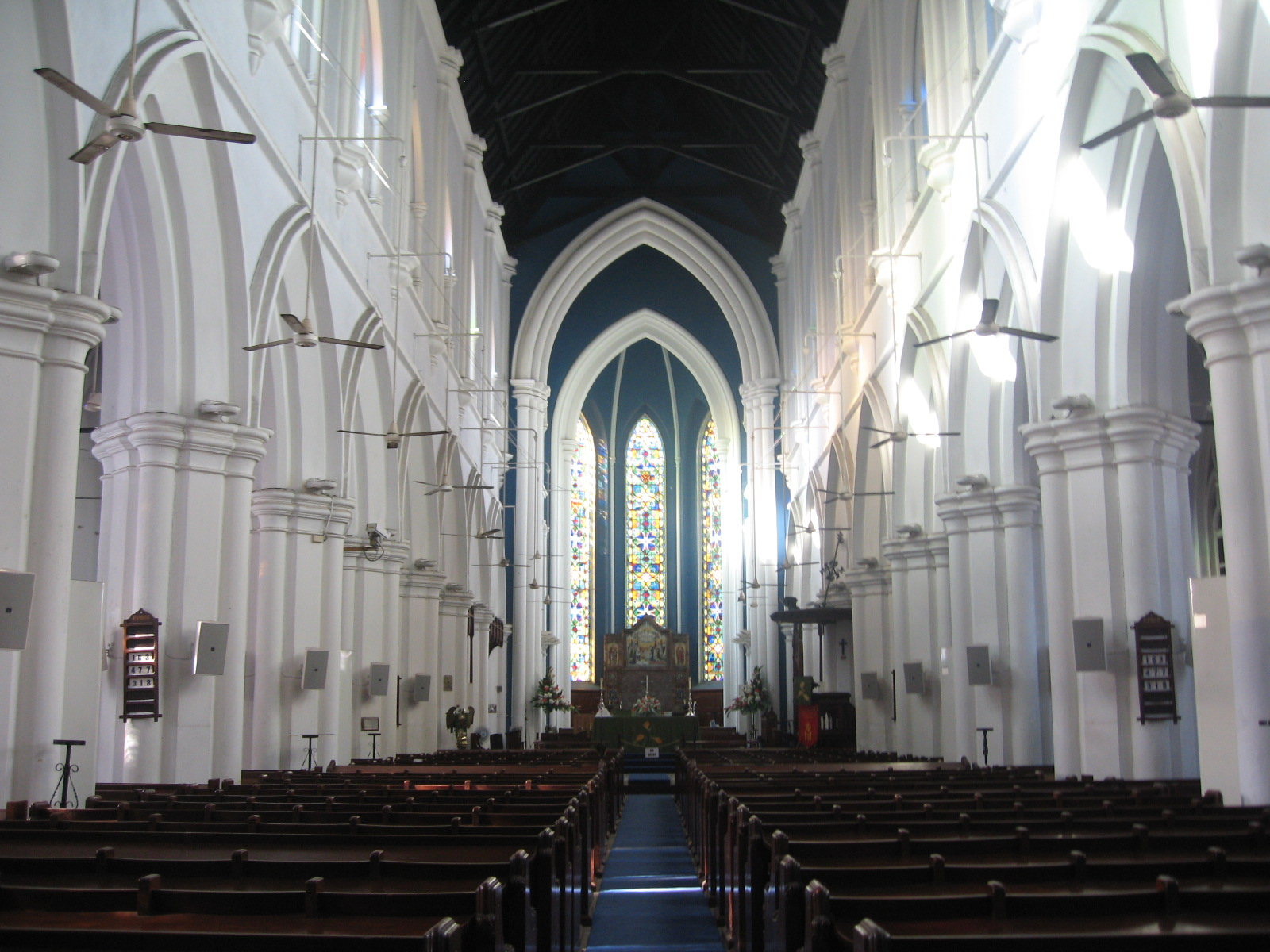 Saint Andrew's Cathedral, Singapore.